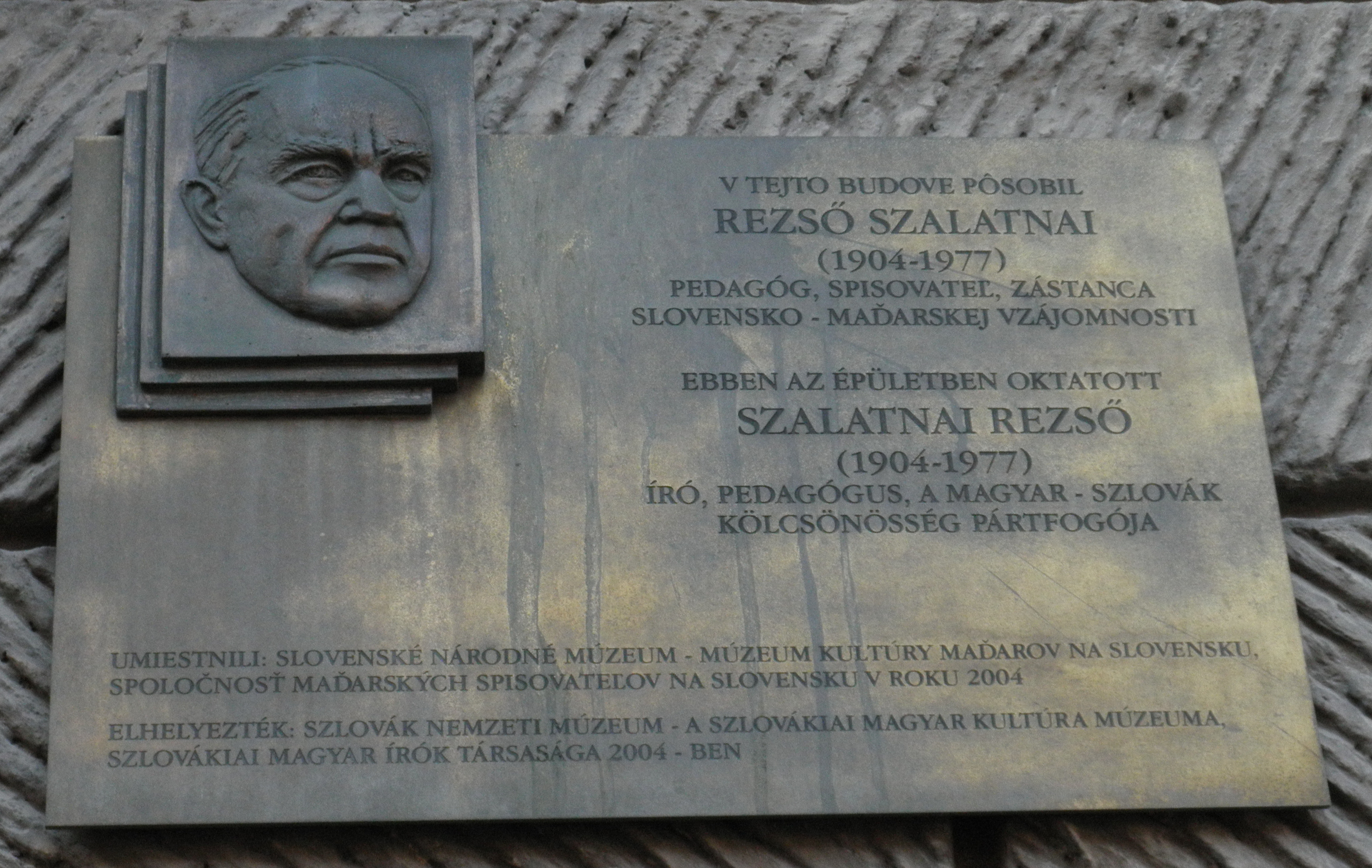 Photo of the memorial plaque of Rezső Szalatnai at the 13 Dunajská street, Bratislva, Slovakia.